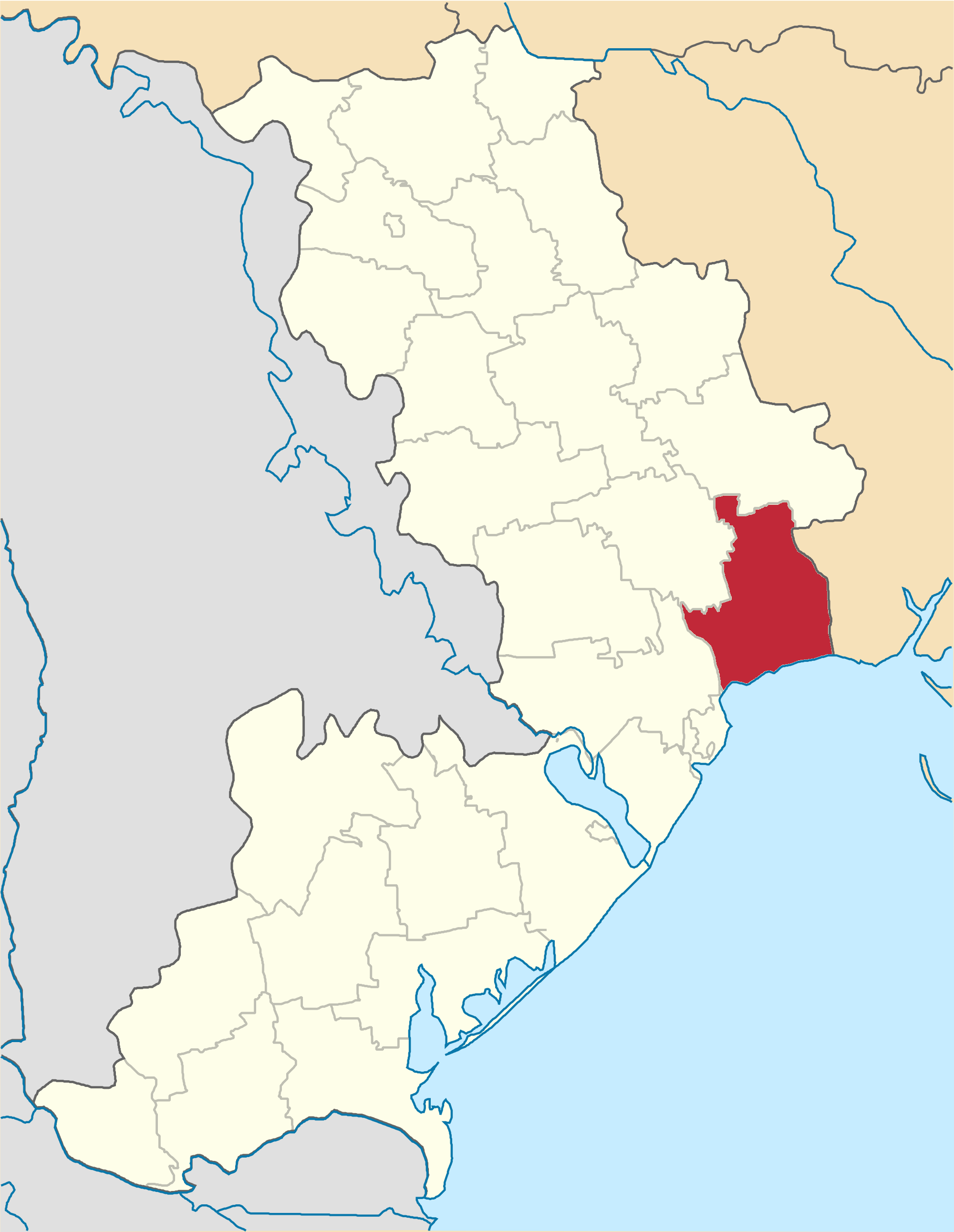 Lymanskyi Raion map